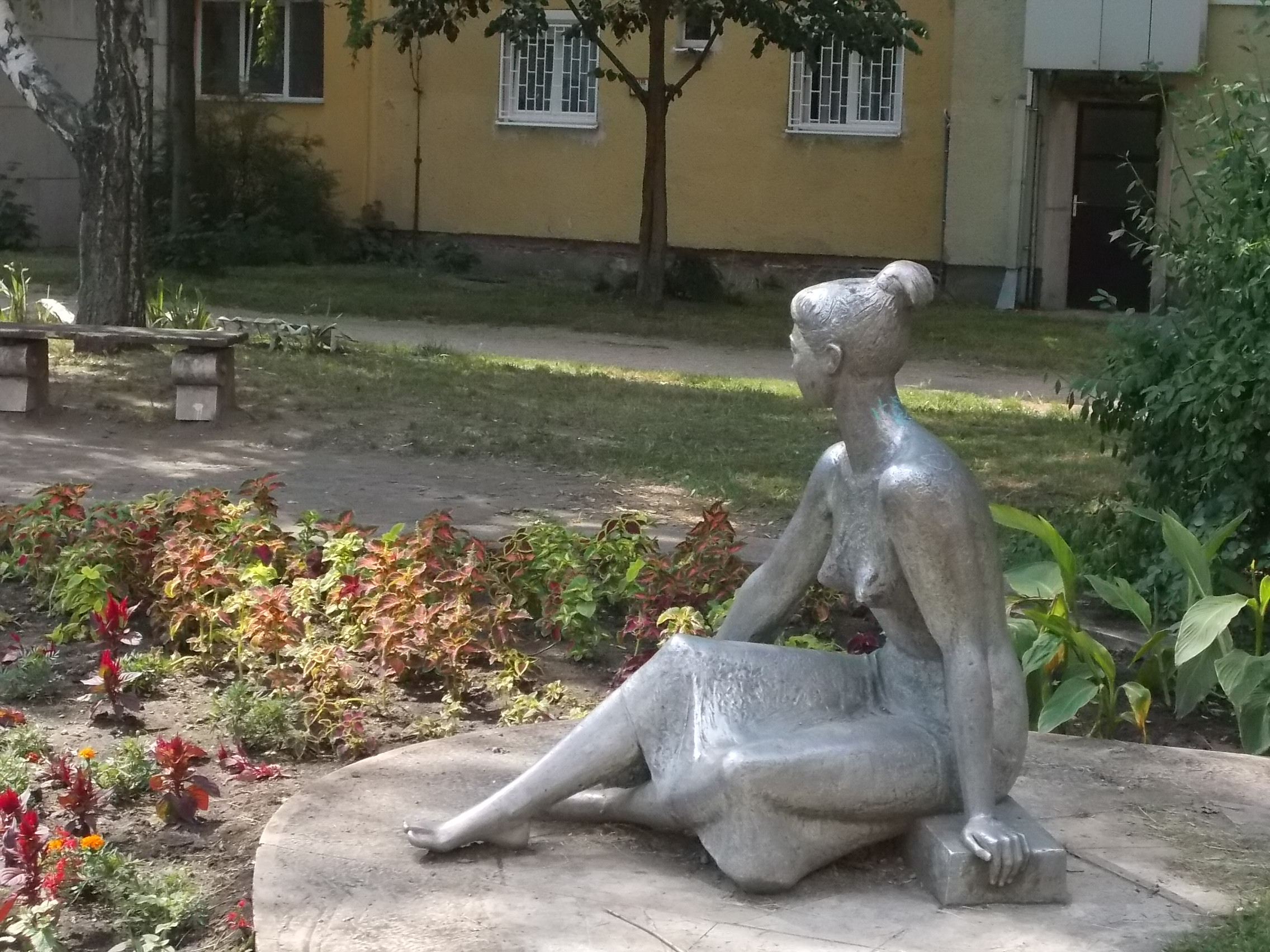 Well figure - Sitting woman by Alice Lux (1906–1988) Description sculptressDate of birth/death 23 October 1906 21 August 1988Location of birth/death Bushtyno BudapestAuthority control : Q56887386 creator QS:P170,Q56887386 (1963 Alumínium fountain statue) in a park at Fürst Sándor street, Oroszlány, Komárom-Esztergom County.